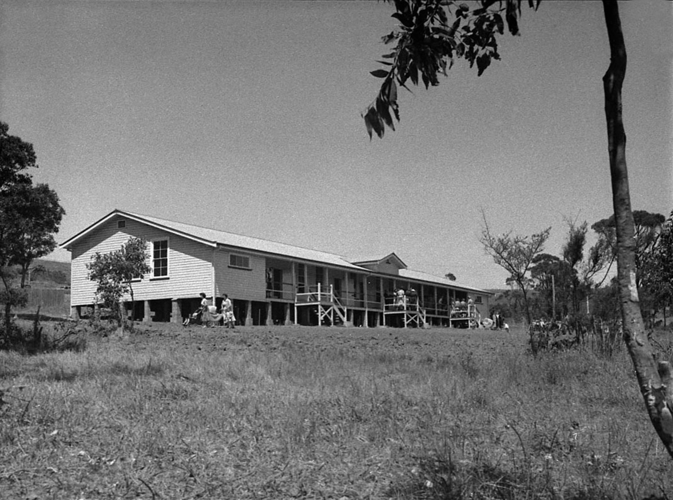 New school, Waratah West, opened by Mr Heffron